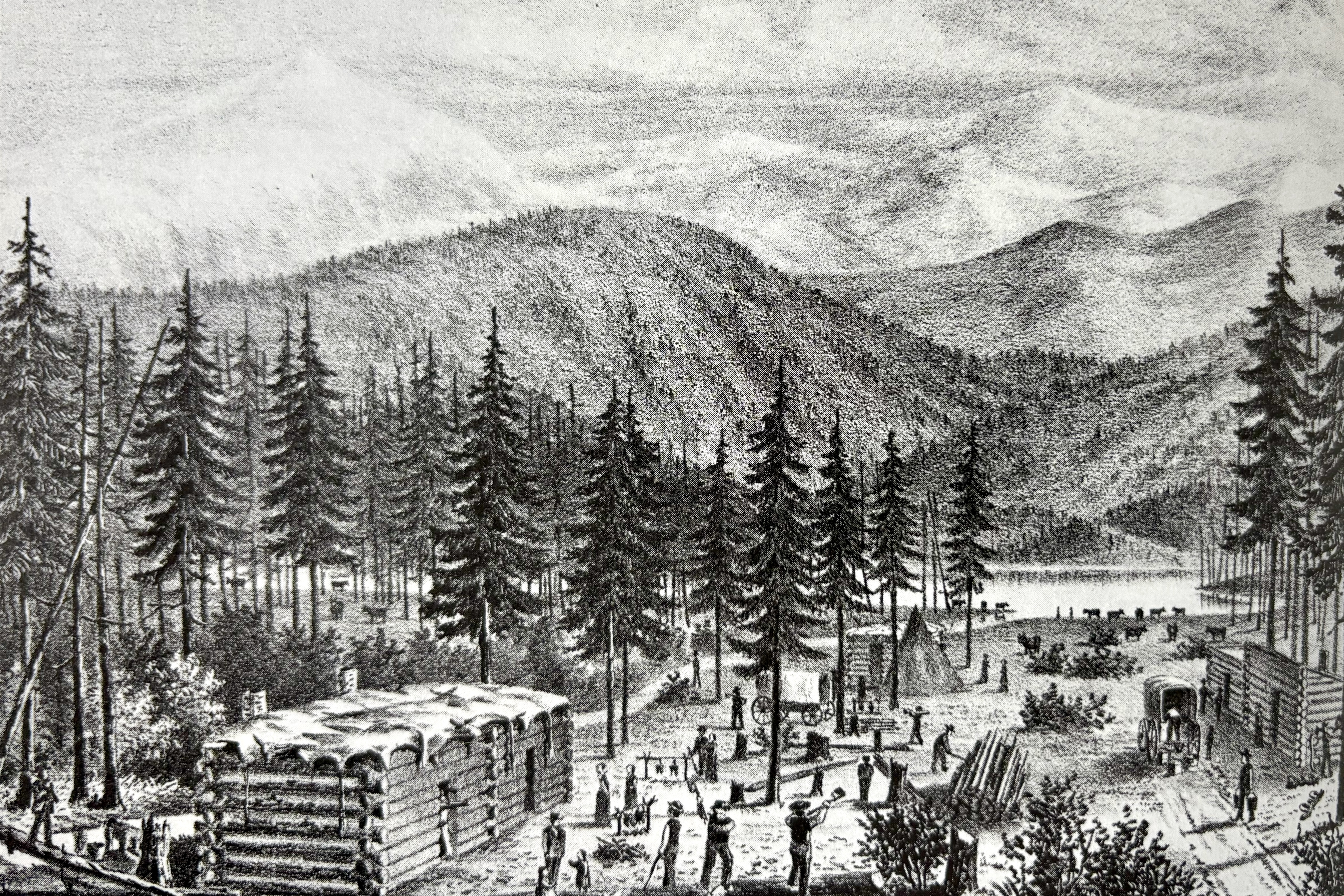 Drawing of the Truckee Lake camp based on descriptions by William Graves, survivor of the Donner Party